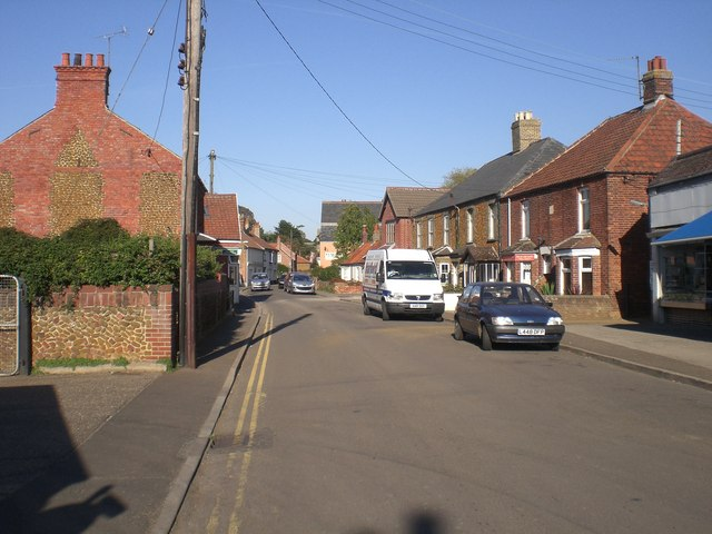 High Street, Heacham for more about the holiday village of Heacham.